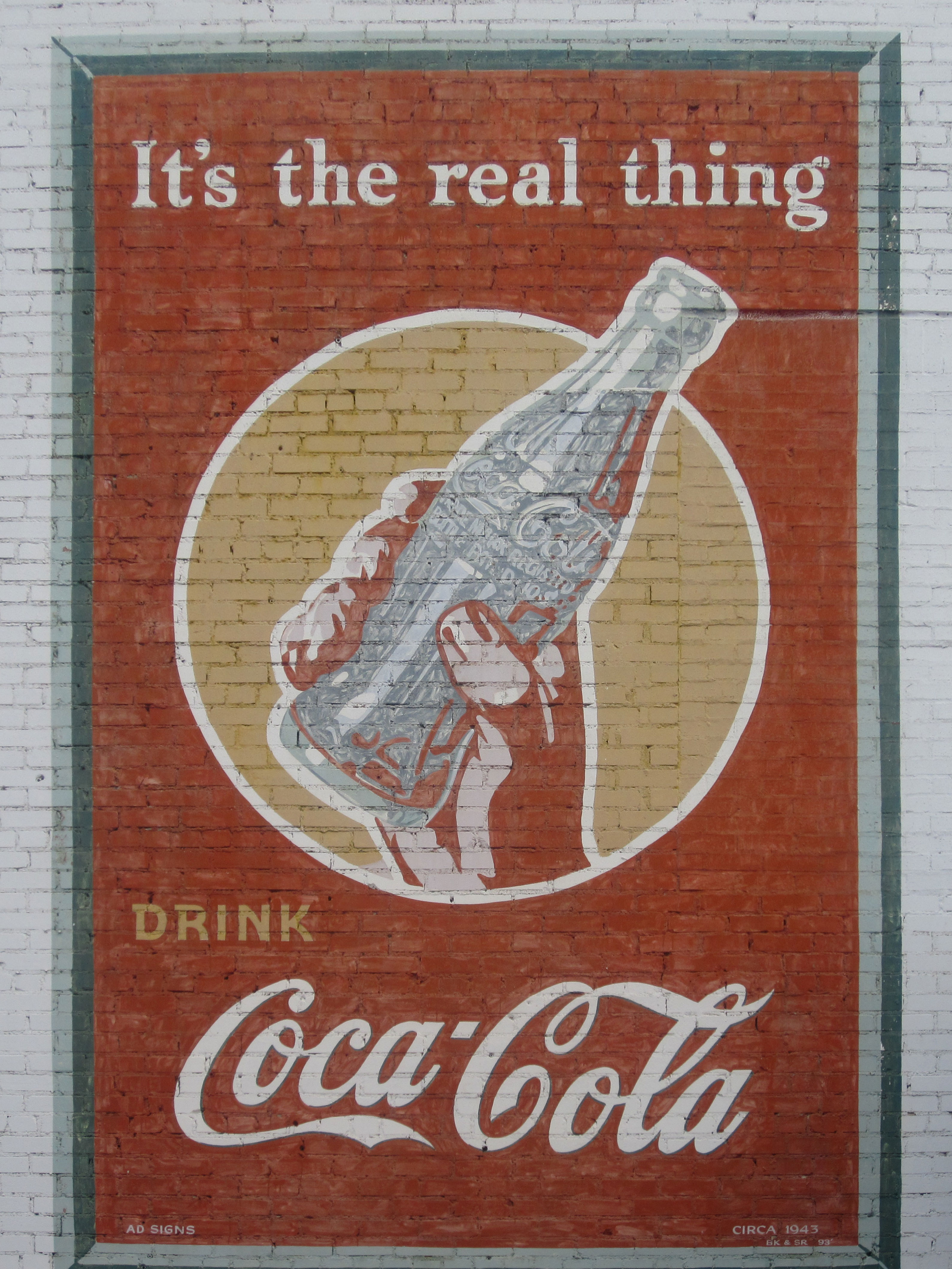 I took photo with Canon camera.